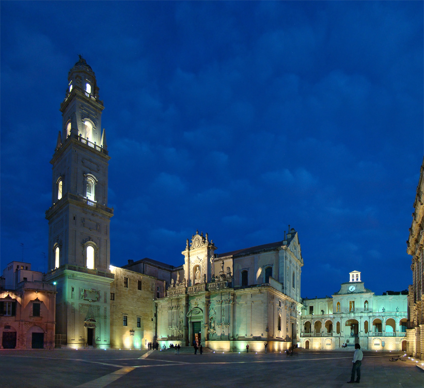 Piazza del Duomo, Lecce, Apulia, Italy.